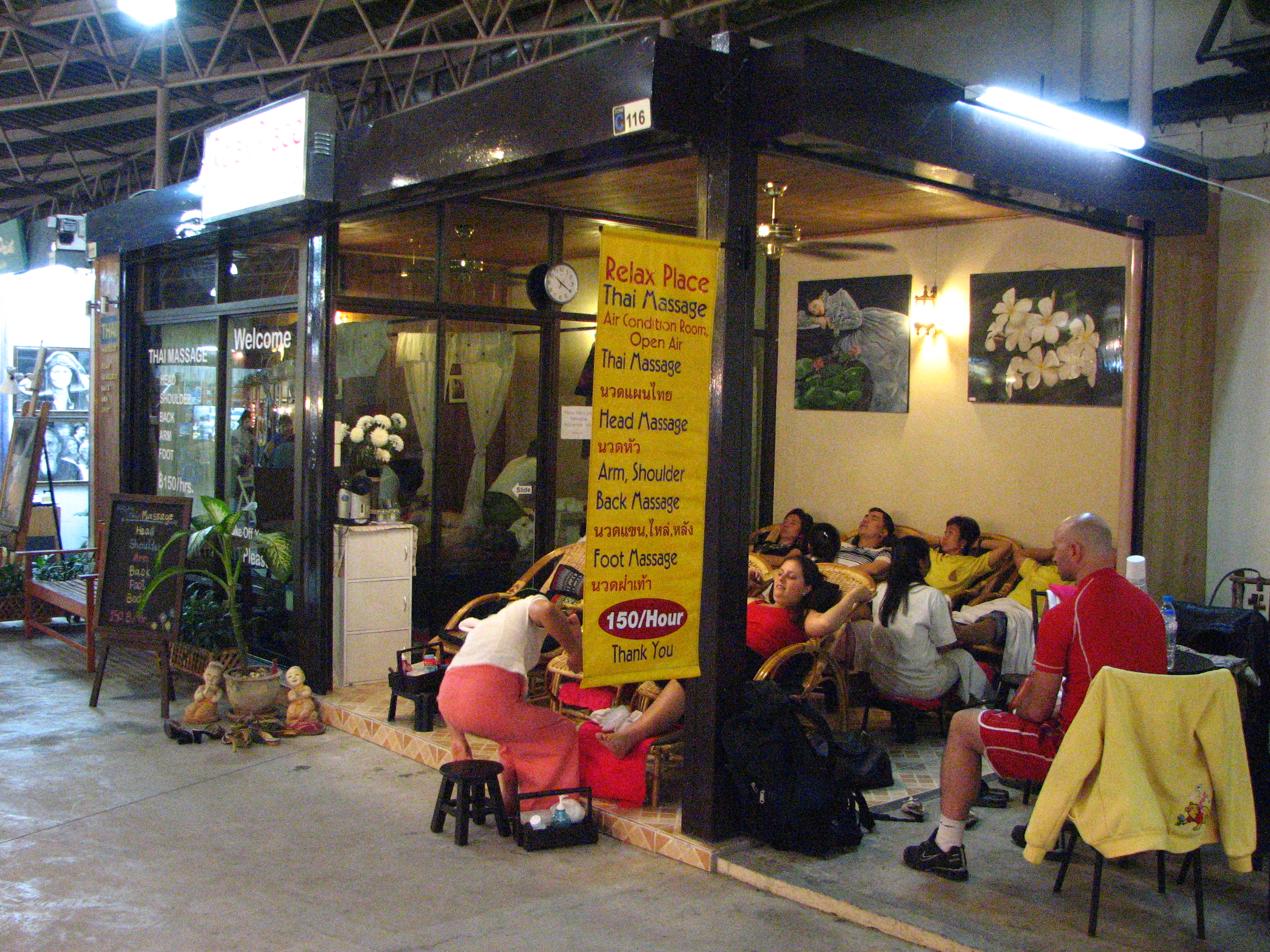 Foot massage at Chiang Mai